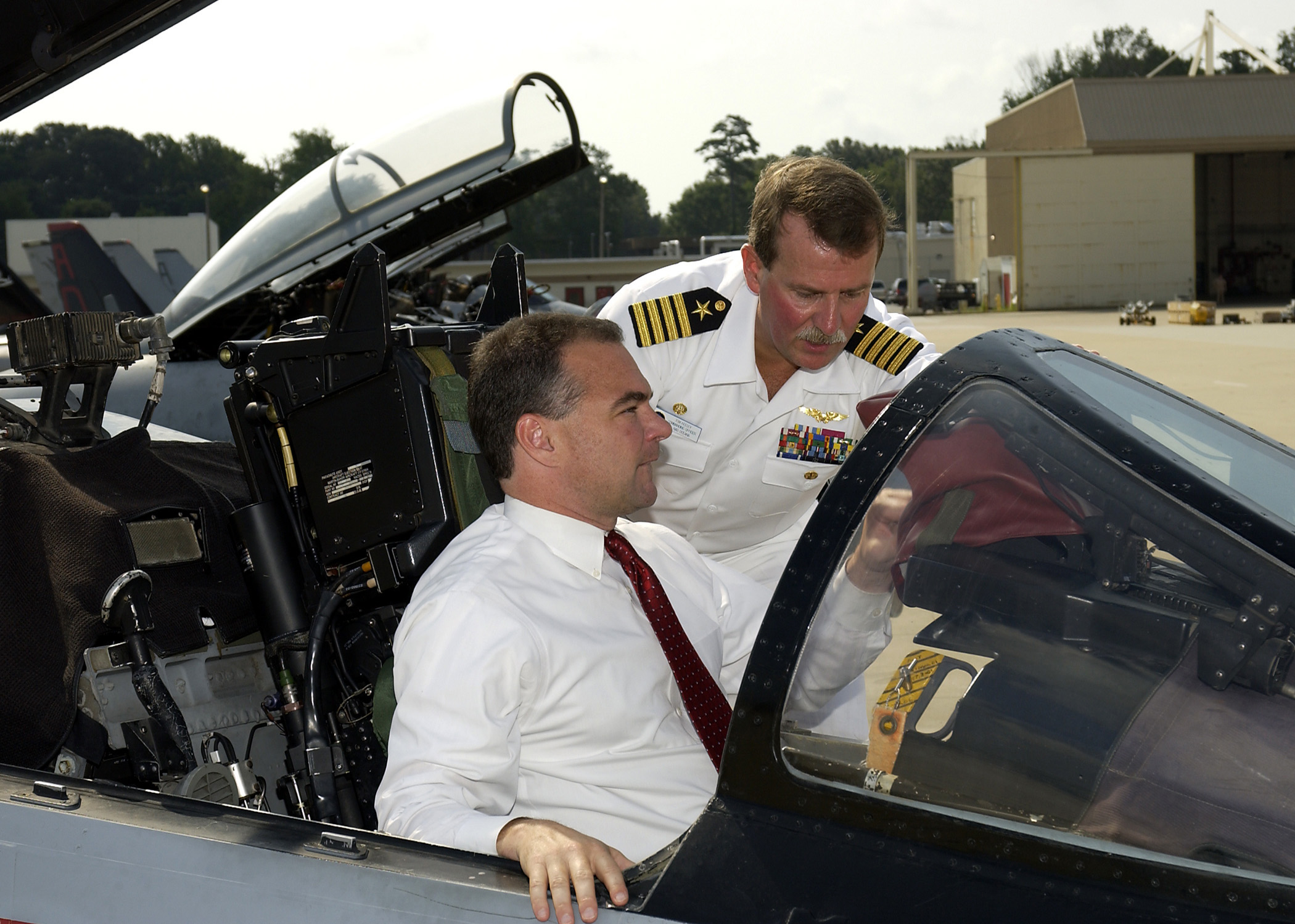 Naval Air Station (NAS) Oceana (Aug. 20, 2003) -- Commanding Officer, Naval Air Station (NAS) Oceana, Capt. T.F. Keeley briefs Virginia's Lt. Governor, Tim Kaine, on the cockpit of an F-14 Tomcat. The Lt. Governor was aboard NAS Oceana for a base orientation. U.S. Navy photo by Photographer’s Mate 2nd Class George Kusner. (RELEASED)